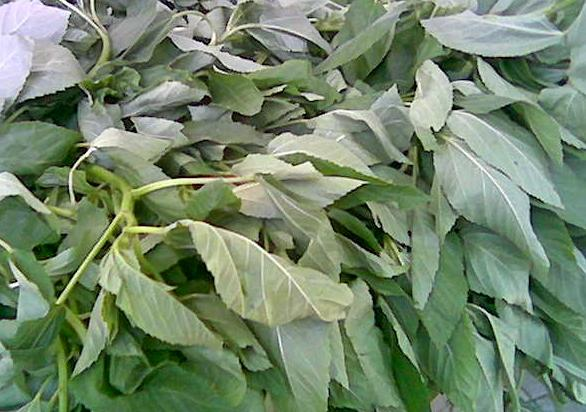 Corchorus olitorius after harvest